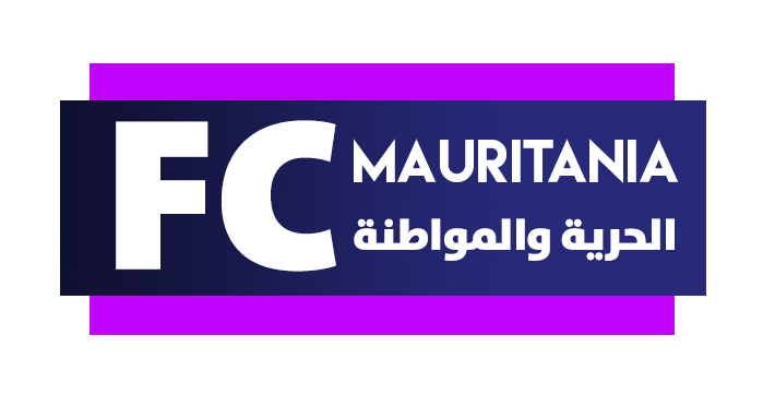 Freedom and Citizenship logo